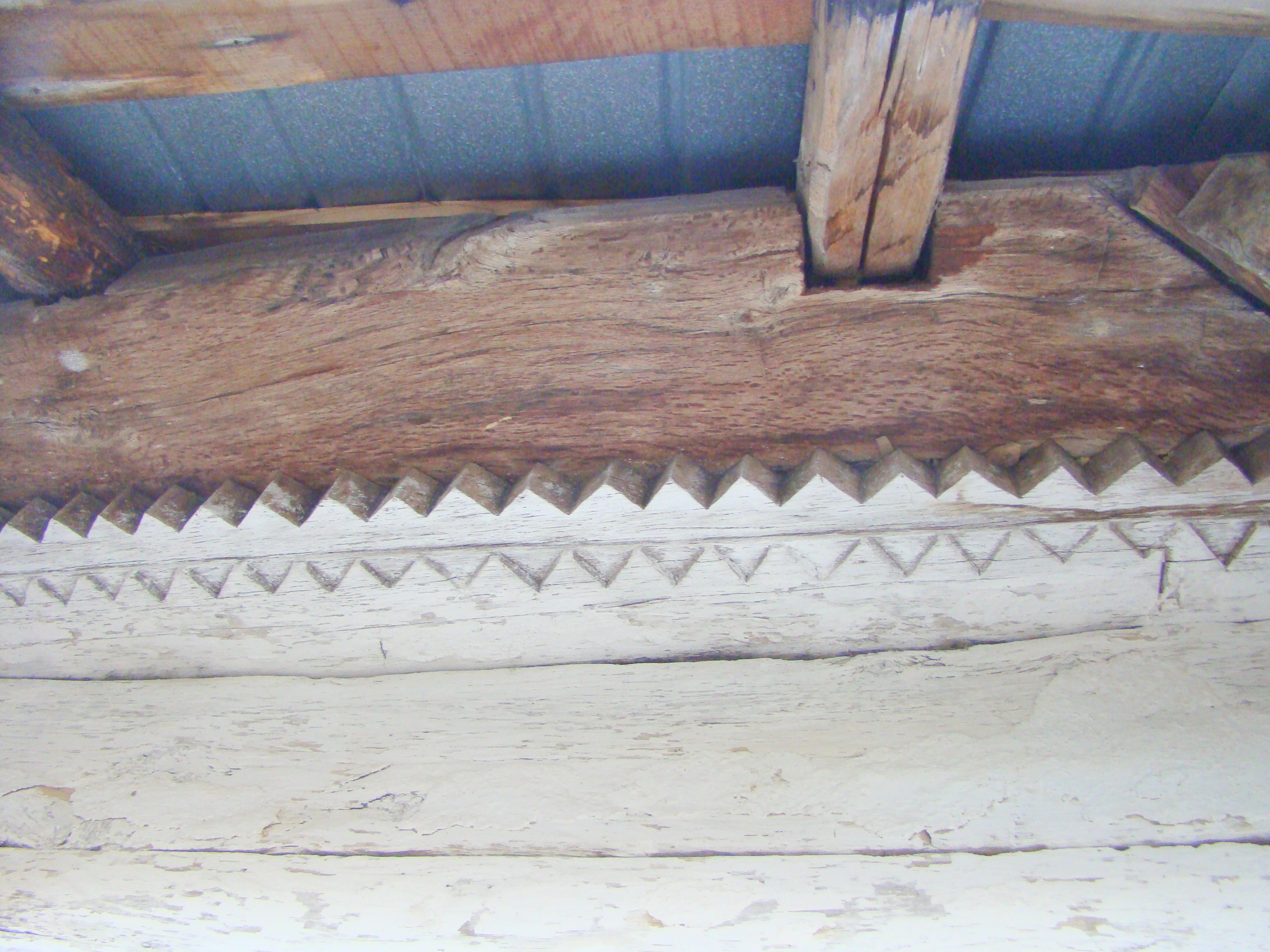 Wooden church in Crasna-Ungureni, Gorj county, Romania